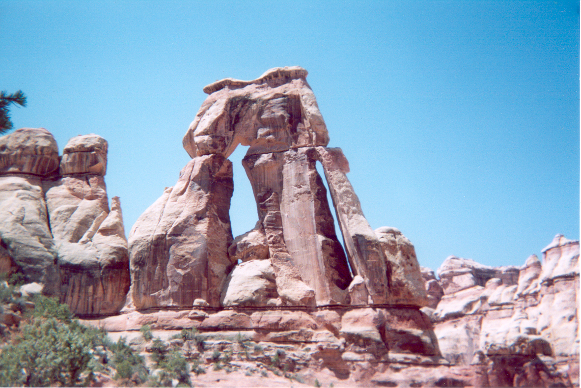 Druid Arch in the Needles District of Canyonlands National Park in Utah, USA